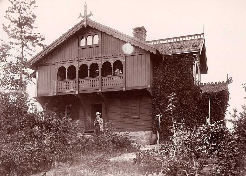 Man standing outside Gustaf Retzius' Villa Sagatun by Lake Mälaren in the south-western outskirts of Stockholm. Format: Albumen print.